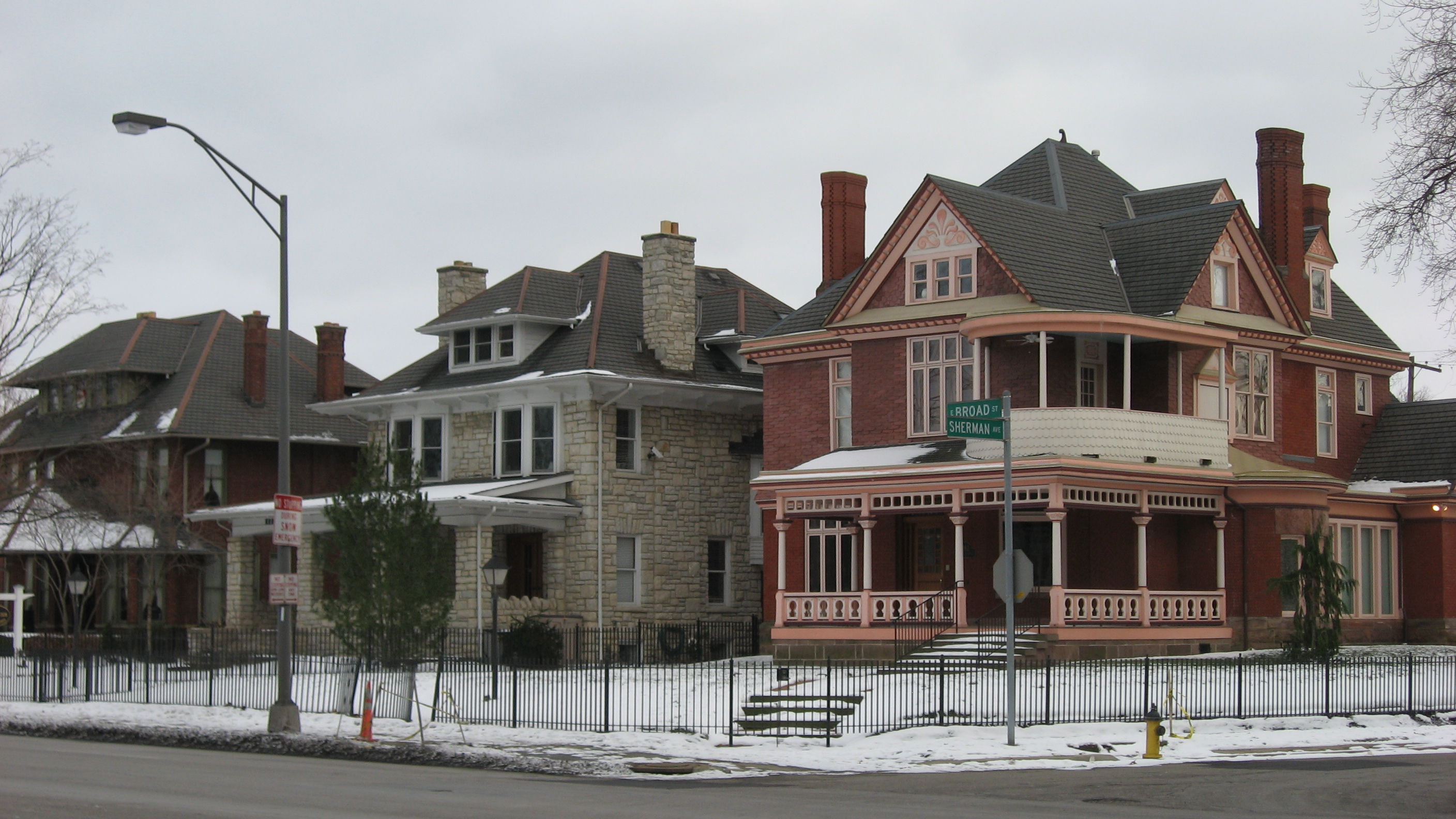 Houses on the southern side of the 1200 block of E. Broad Street (U.S. Route 40) in Columbus, Ohio, United States. This block is part of a historic district, the East Broad Street Historic District, which is listed on the National Register of Historic Places.